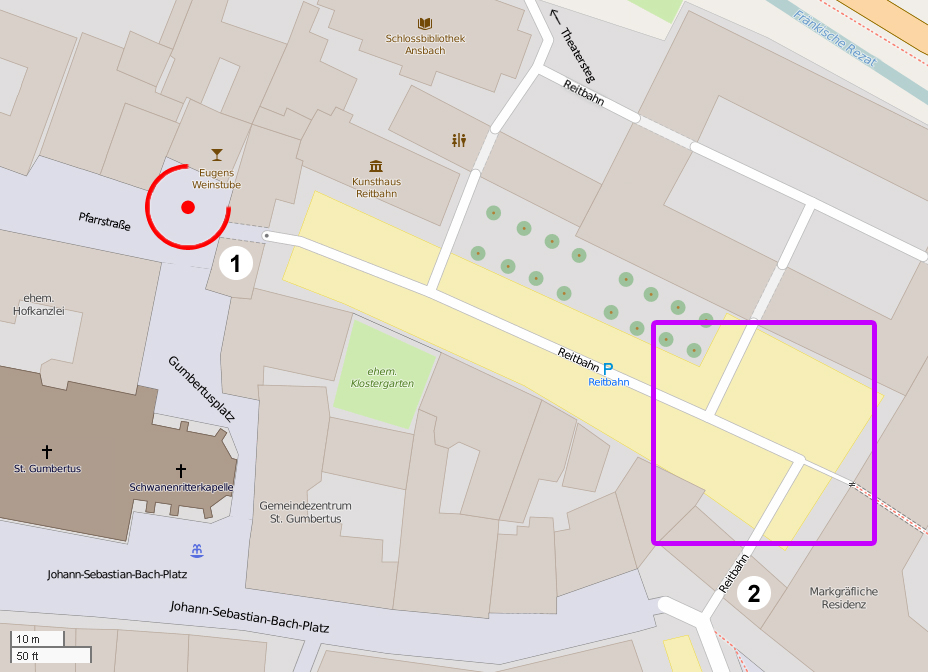 The map shows that only two effectively usable and very narrow exits were available. Therefore, in a panic scene of the event, it would be very probable and for this reason alone that personal injuries would have occurred.